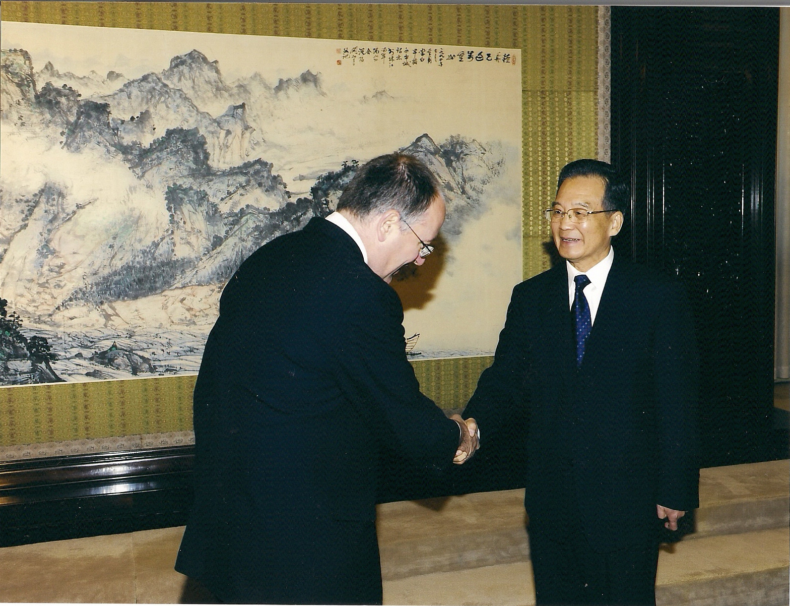 Senior Fellow Kerry Brown met with Chinese Premier Wen Jiabao in Beijing, November 2009